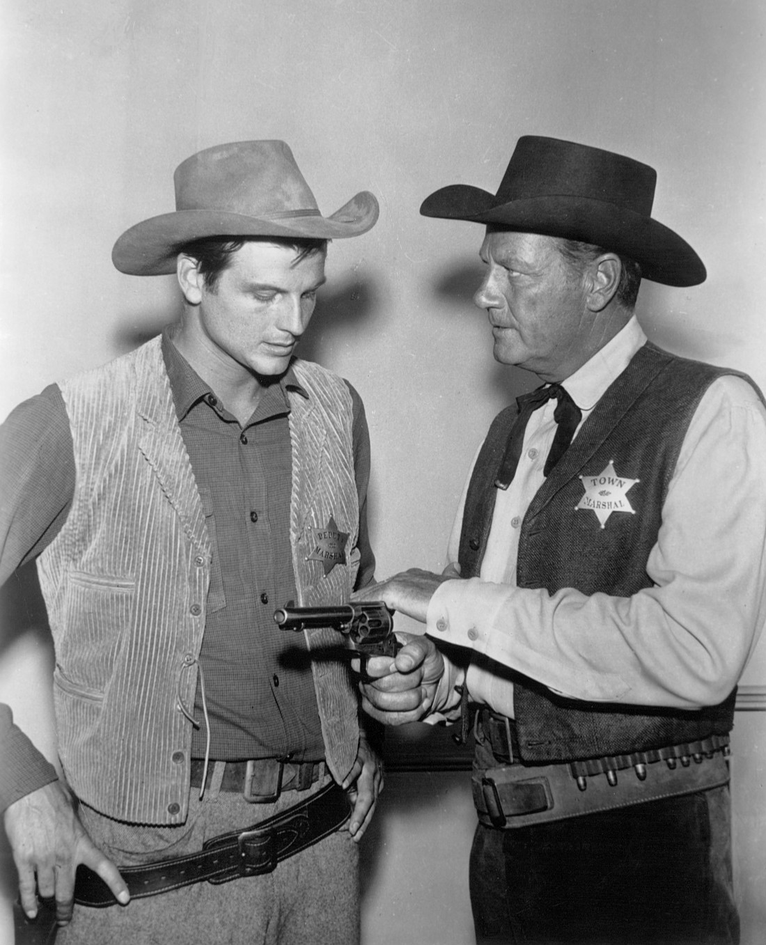 Photo of Jody and Joel McCrea from the American television western Wichita Town. Father and son co-starred in this short-lived television series.